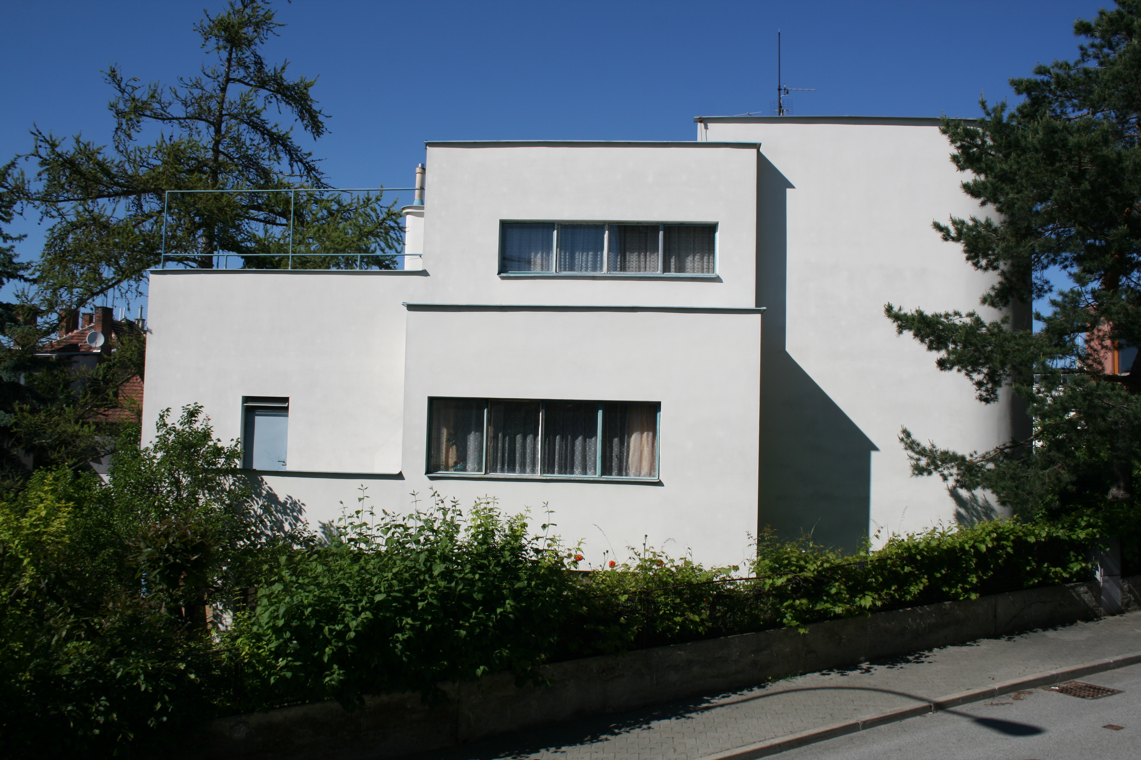 Villa of ing. Slavík by Josef Kranz, Brno, Czech Republic.